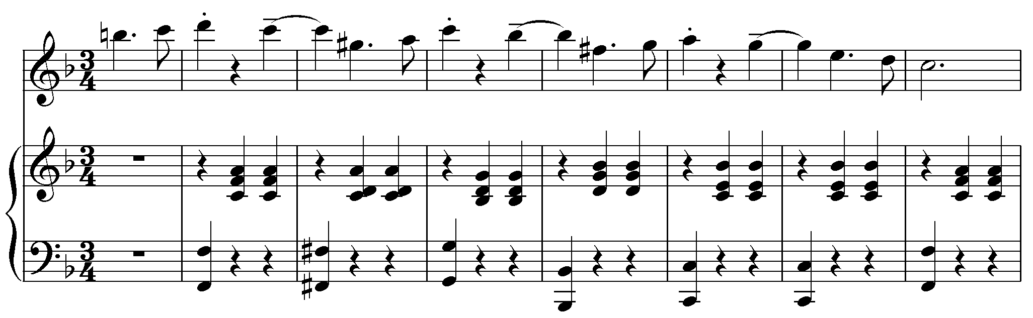 Lanner's Schönbrunner, Op. 200, No. 4, mm. 17-23